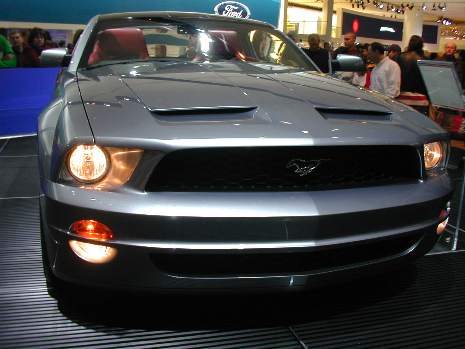 This was the concept car that eventually became the production 2005 Mustang. This is the concept I wanted to see! Taken at the 2003 North American International Auto Show in Detroit, Michigan